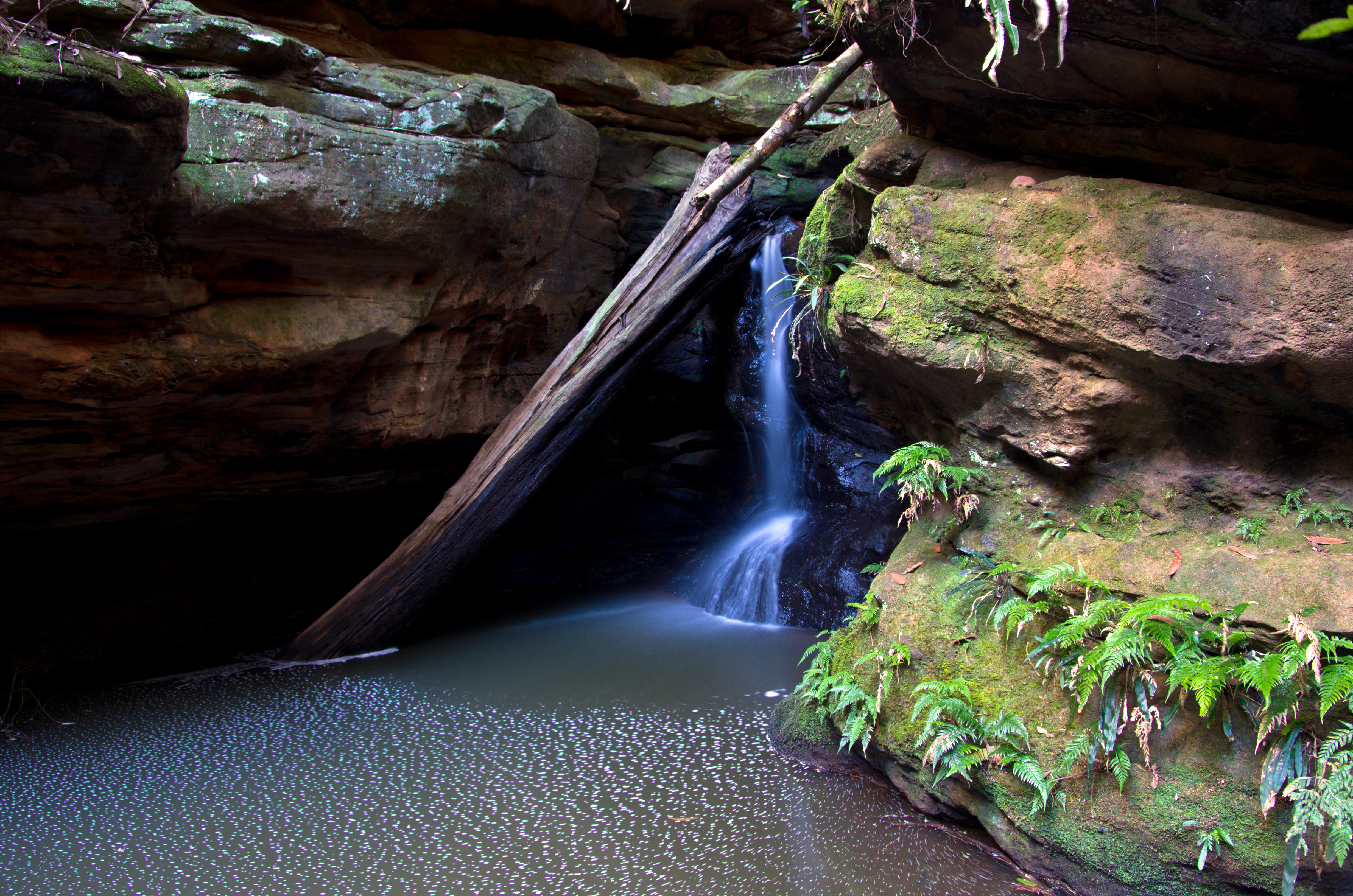 Glow Worm Glen, Bundanoon